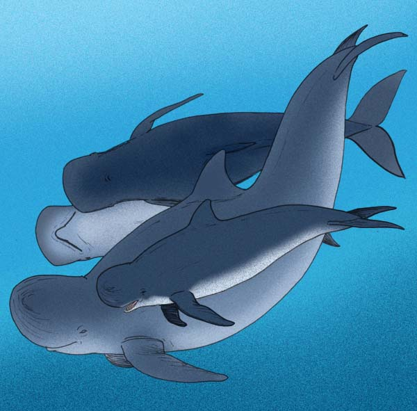 Reconstruction of a pod of the Blunt-Snouted Dolphin, from the Early to Middle Pleistocene of Holland